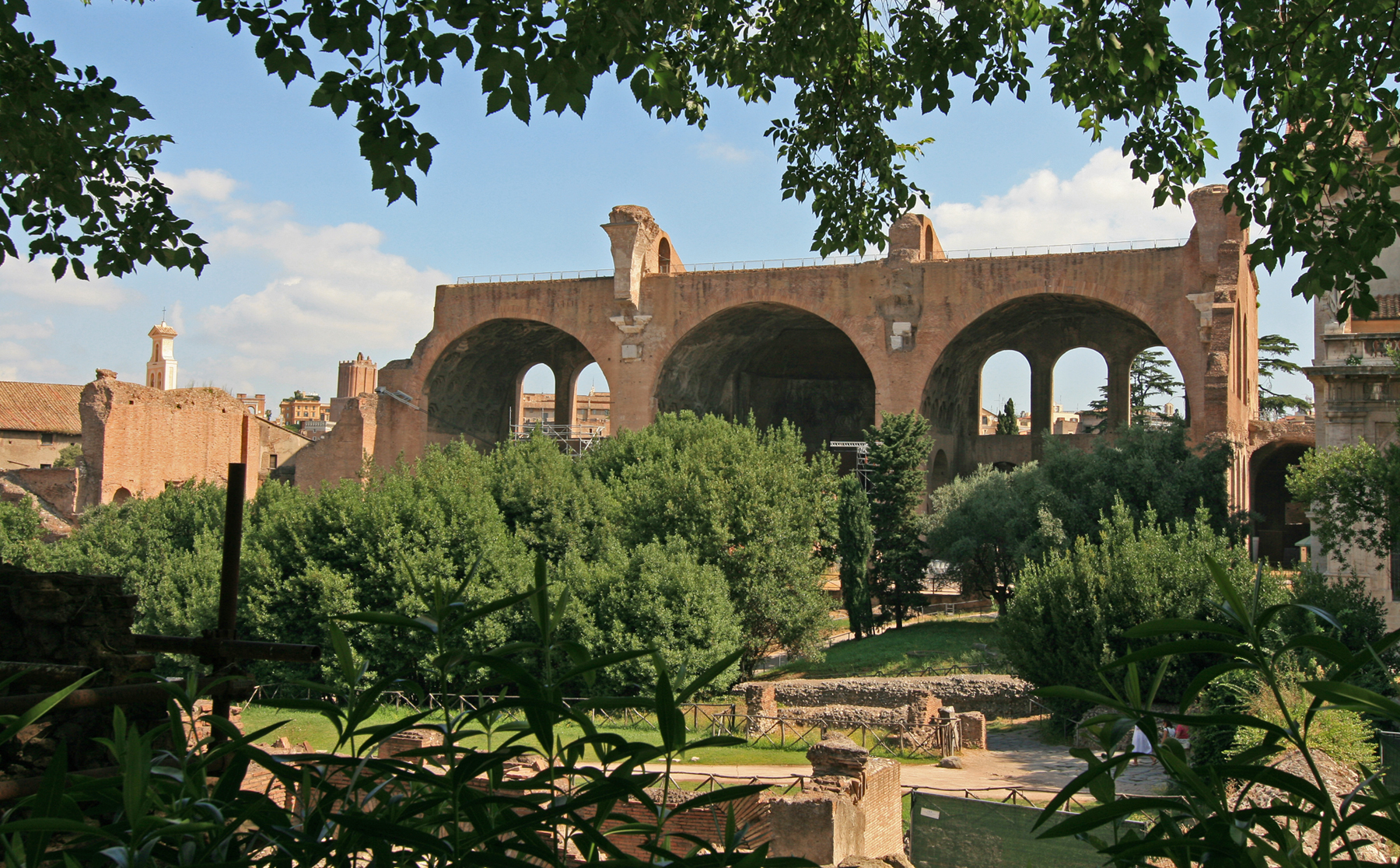 Basilica of Maxentius and Constantine, Rome.